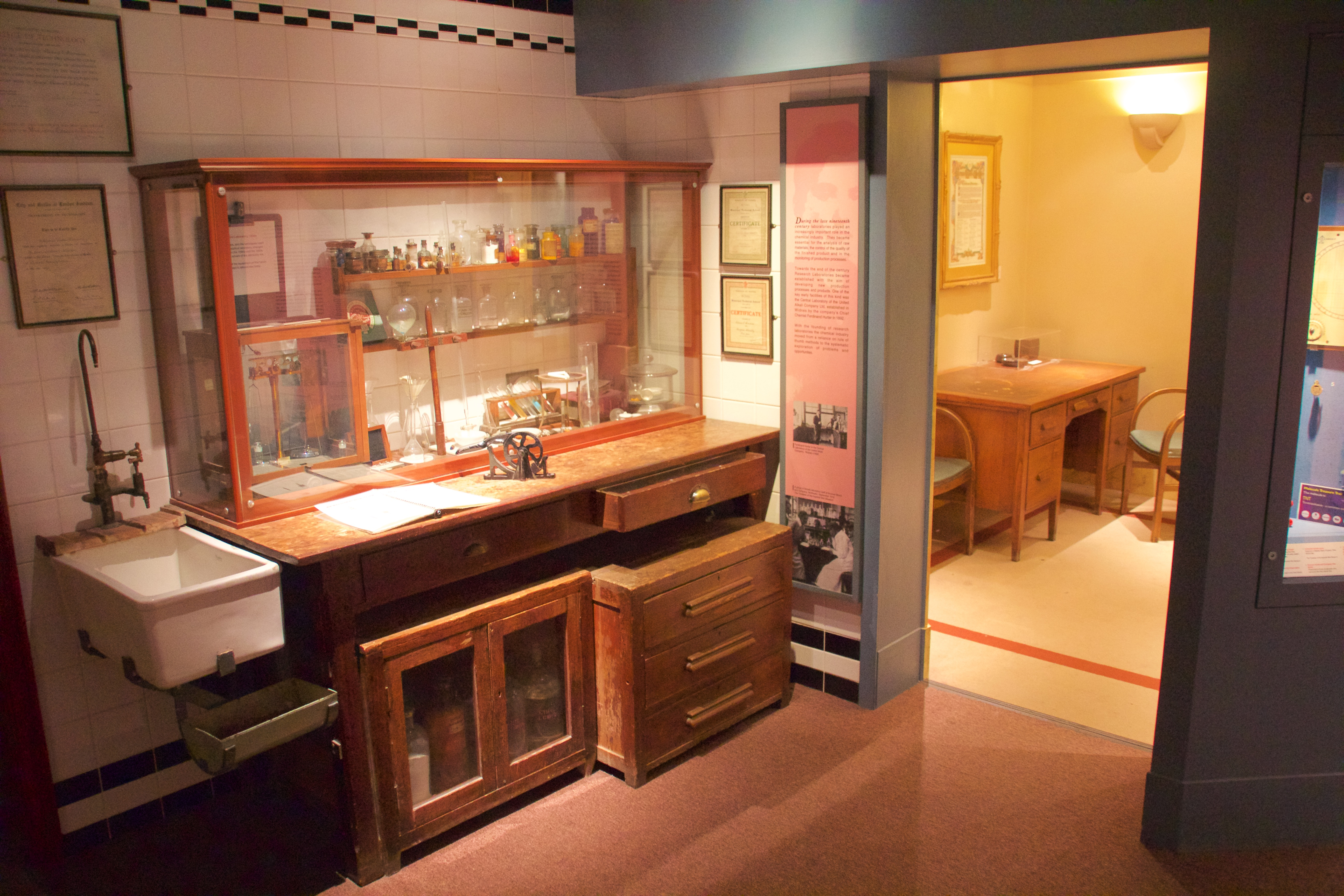 Exhibits at the Catalyst Science Discovery Centre.